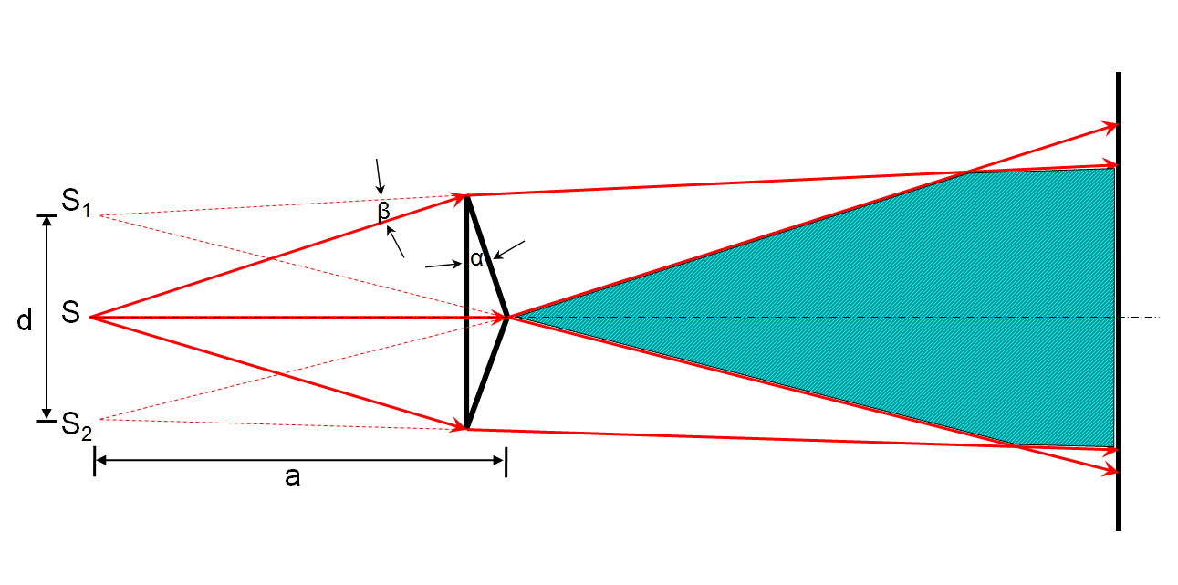 the interference of Fresnel double prism